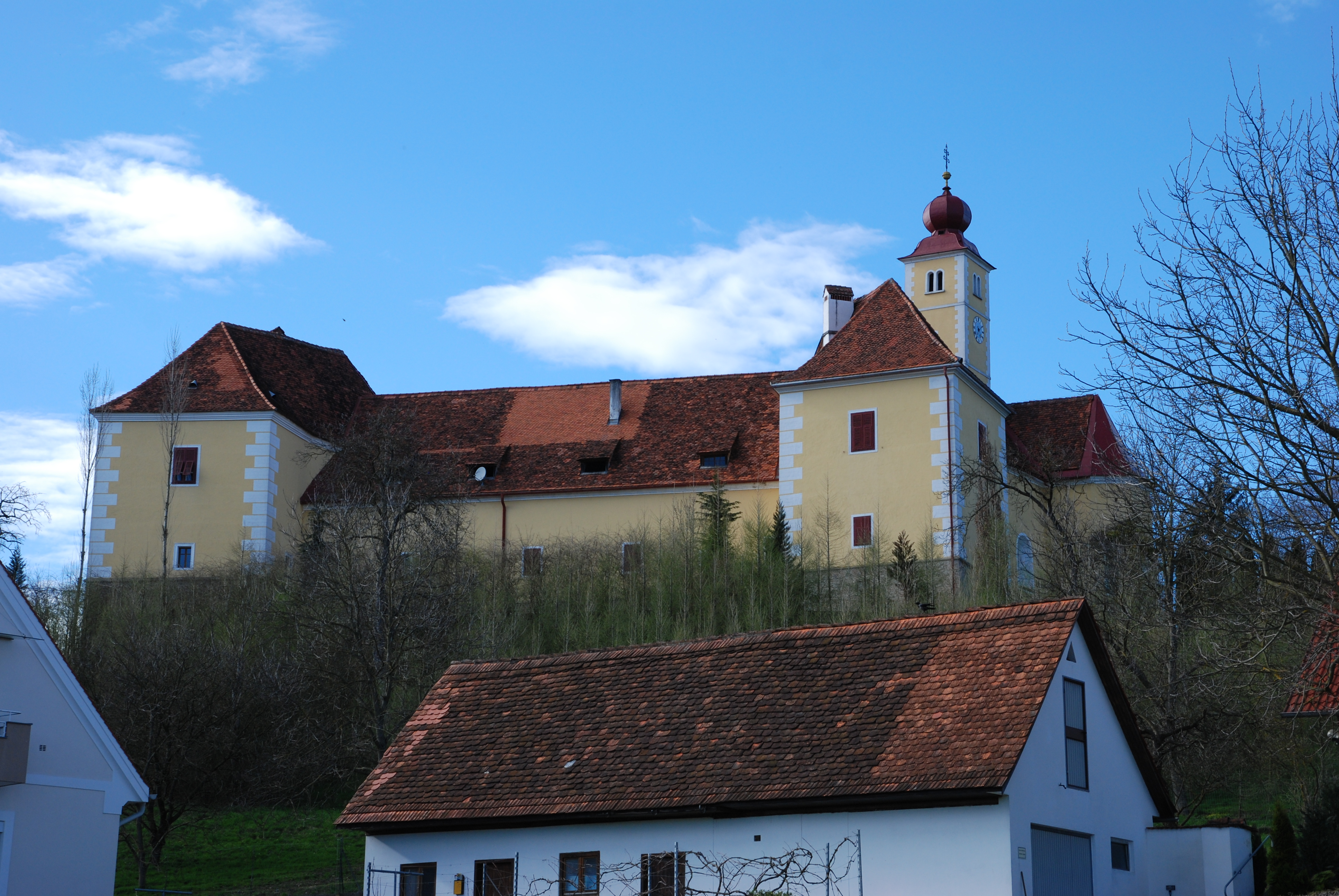 Schloss Weinburg am Sassbach